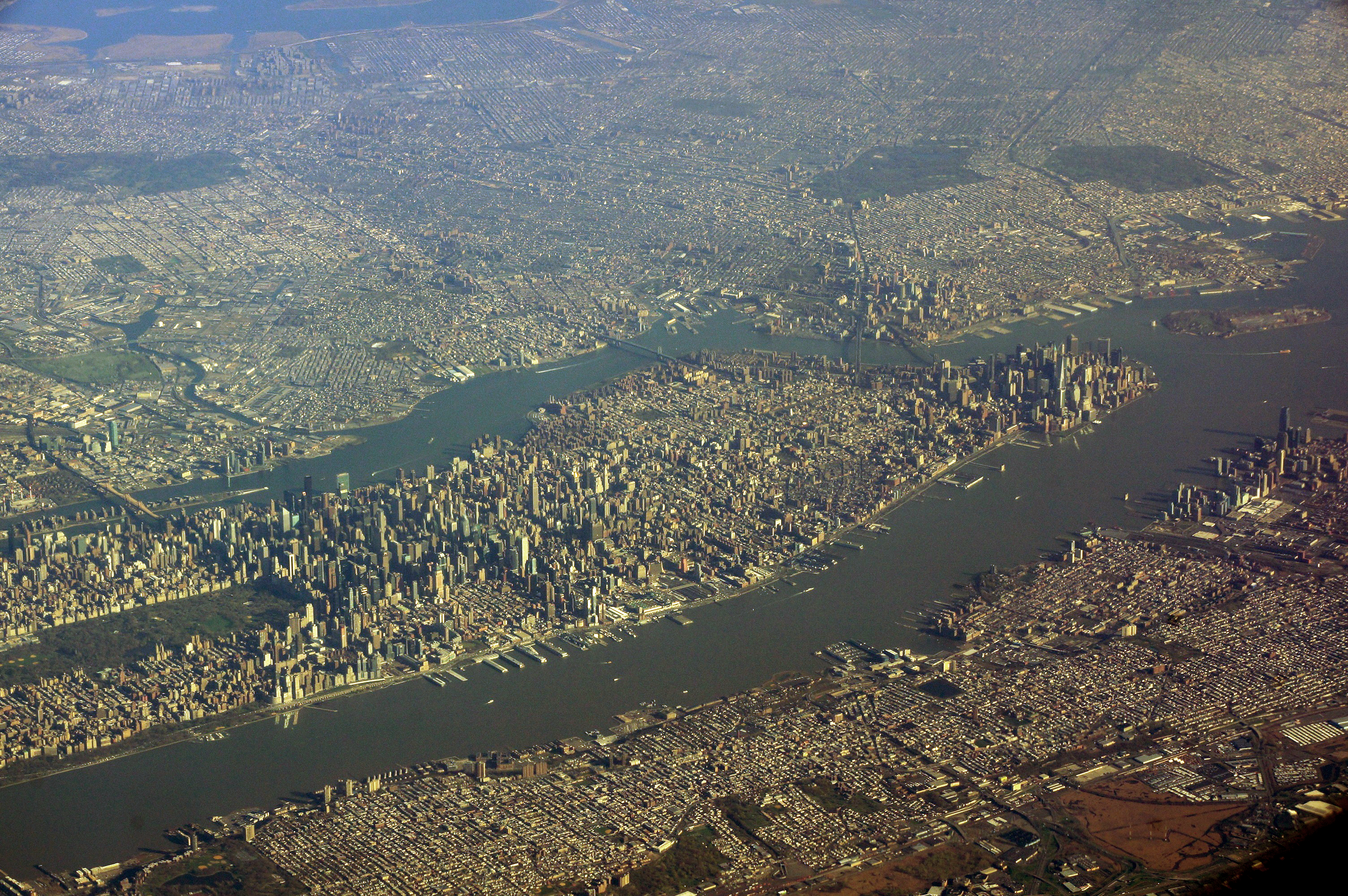 Manhattan from the Air, April 2013.